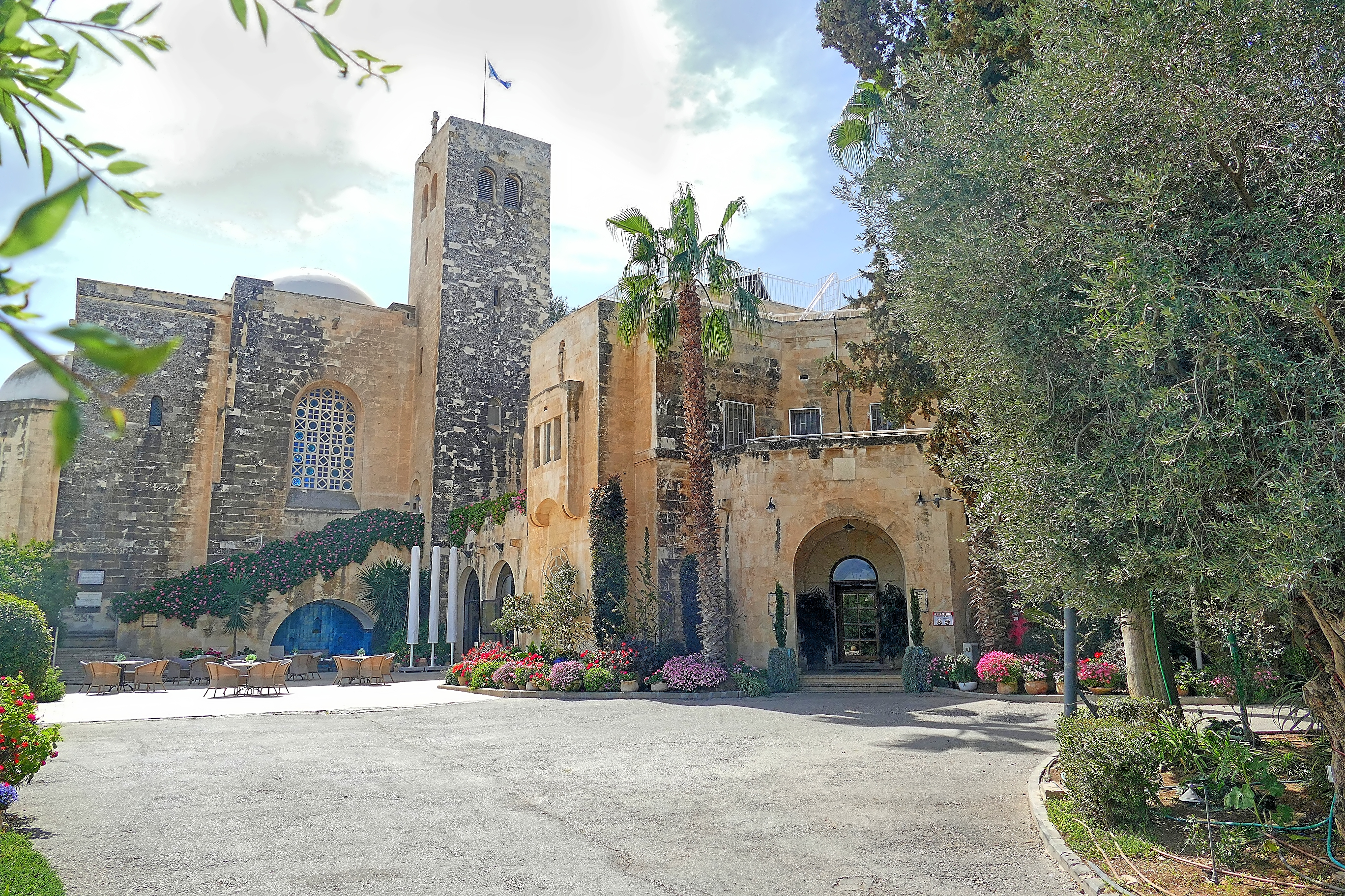 The Scottish Church front